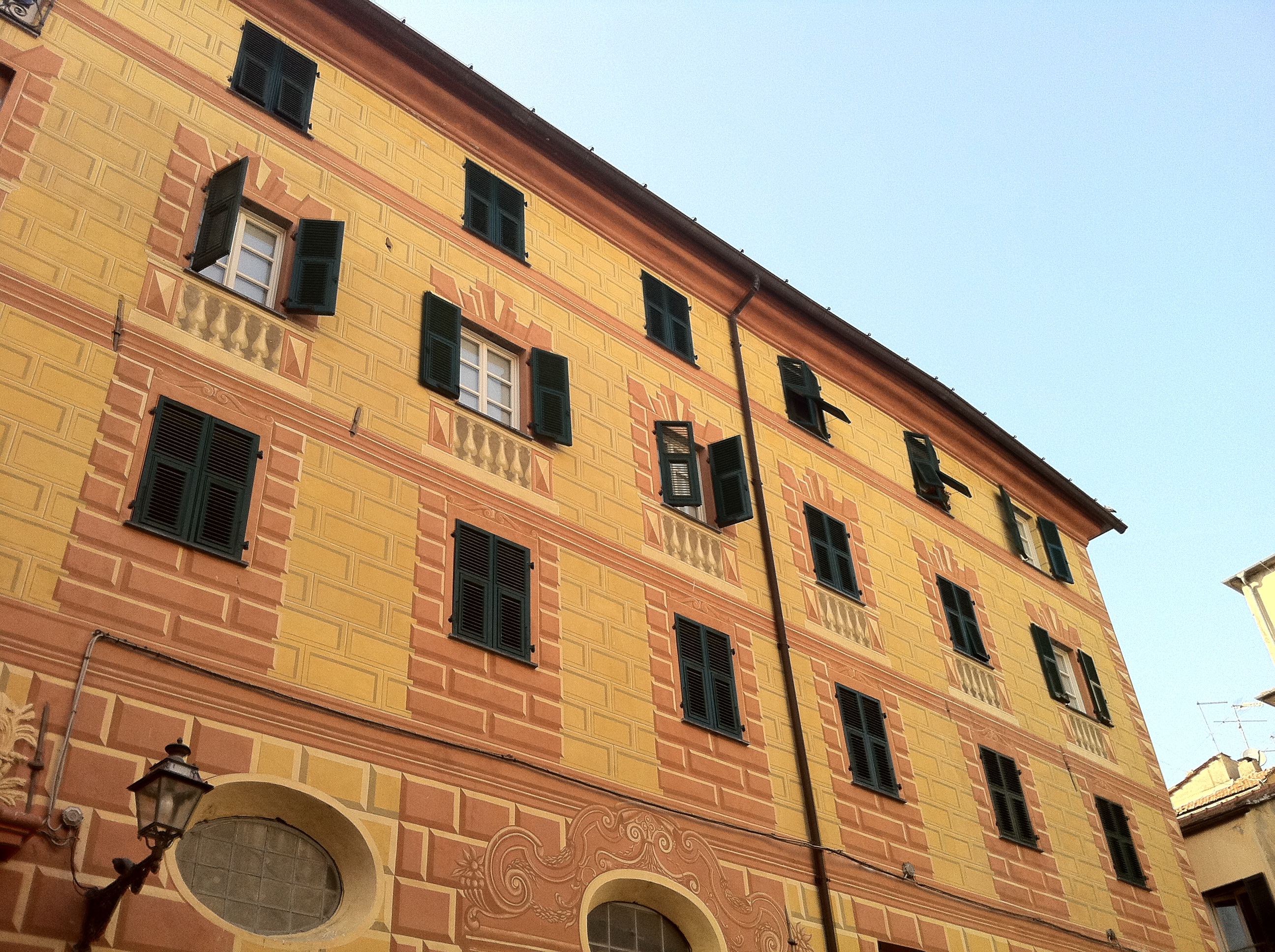 Actual pictures of the old catholic seminary of Albenga